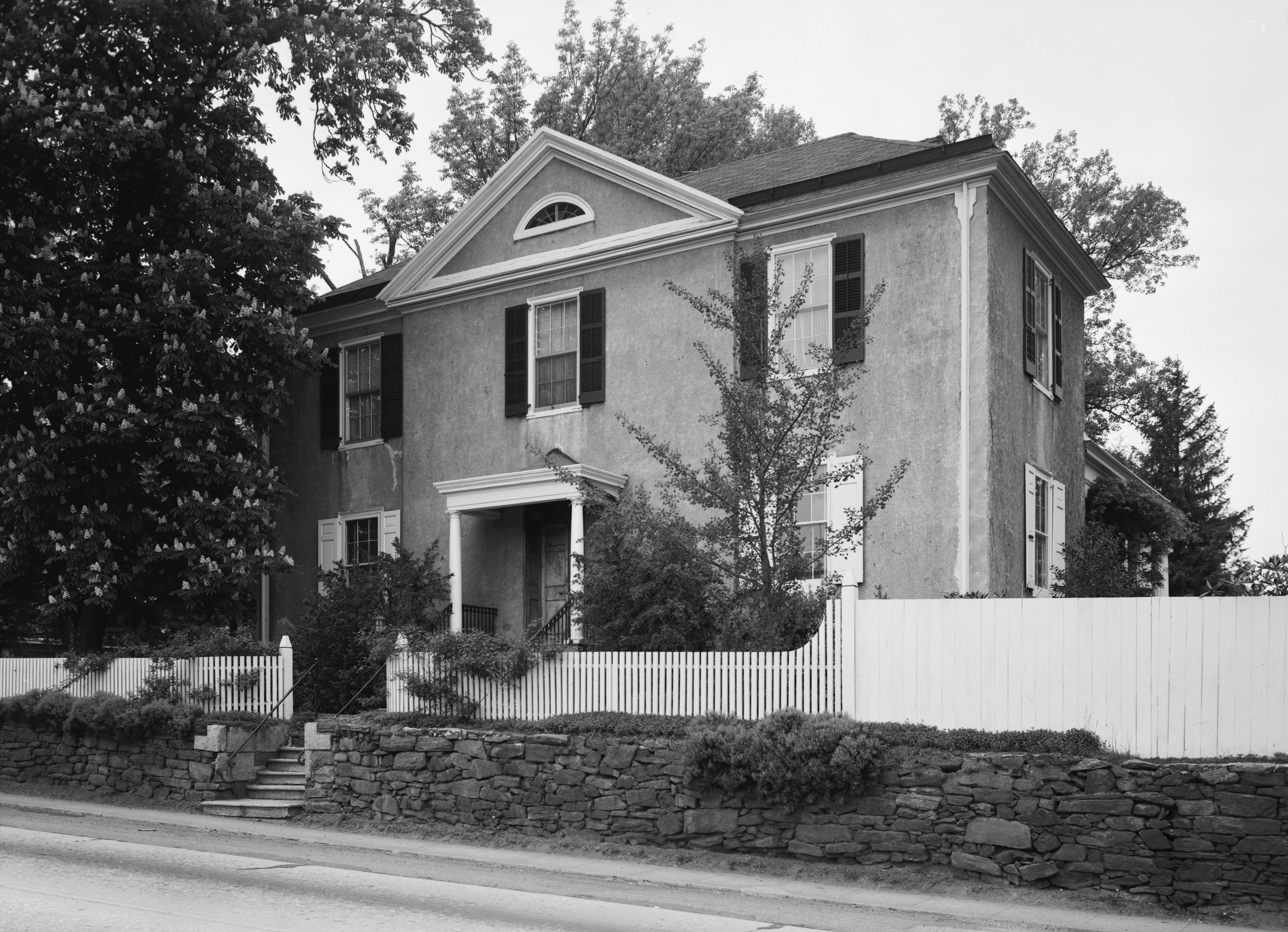 Pont Reading house in Delaware County, Pennsylvania. PHMC state historical marker gives history.